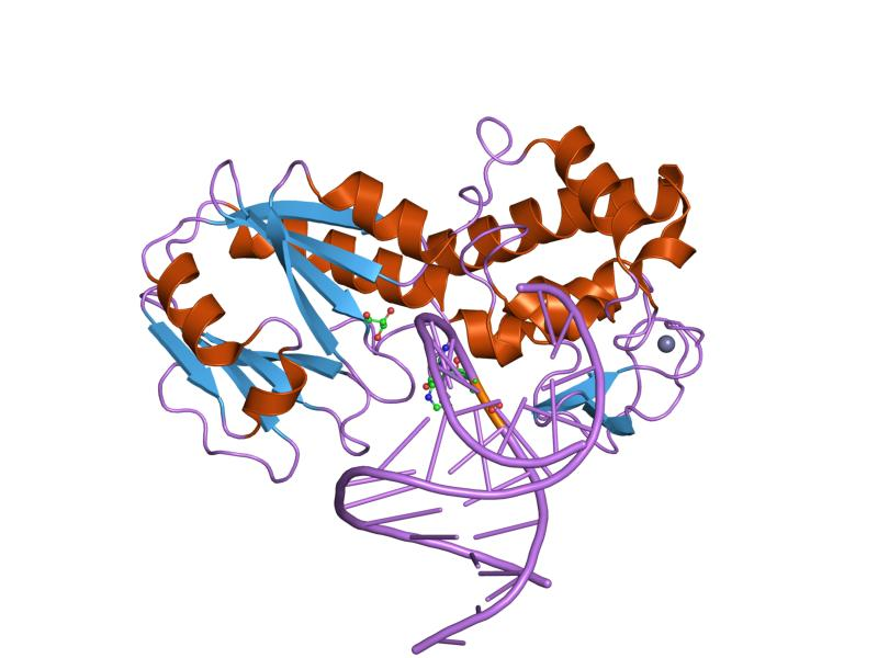 Cartoon representation of the molecular structure of protein registered with 1tdz code.